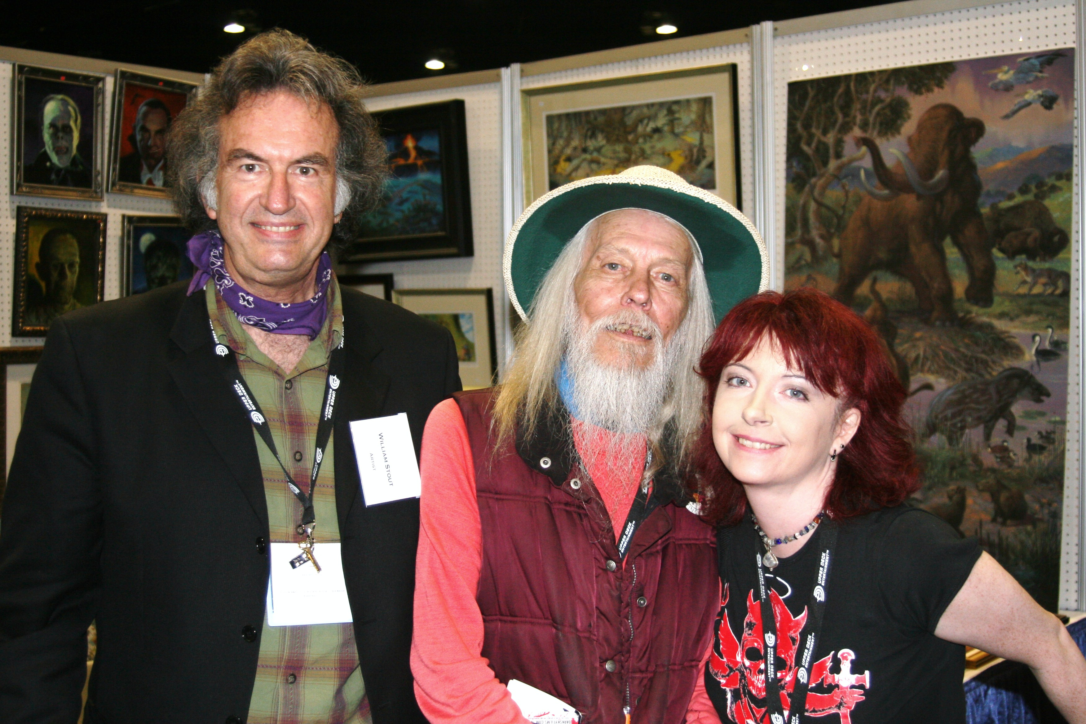 (L to R) American fantasy artist William Stout, science fiction writer George Clayton Johnson, and Sunny Brock.